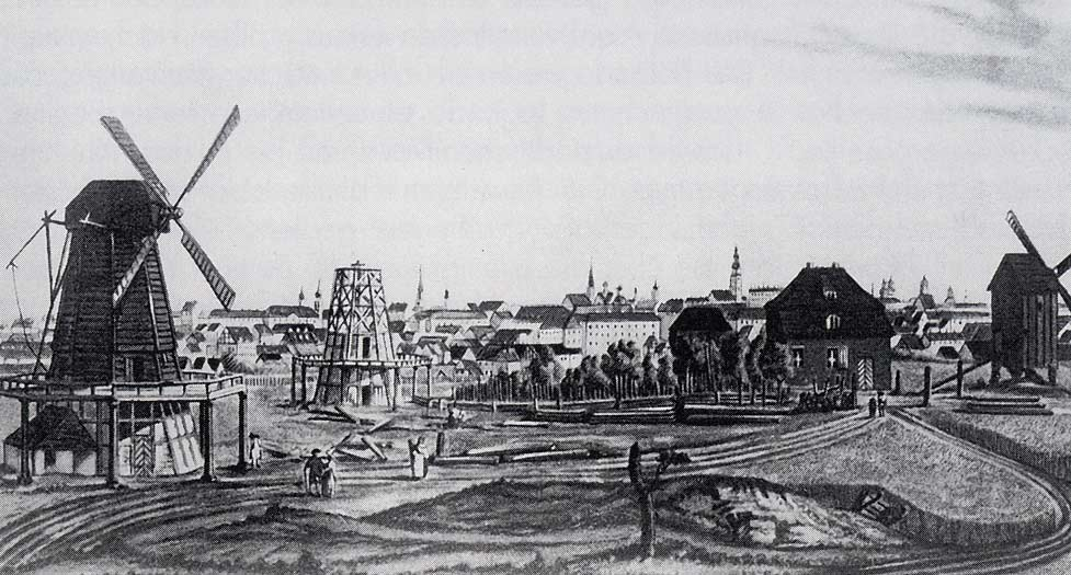 The windmill hill in Berlin-Prenzlauer Berg